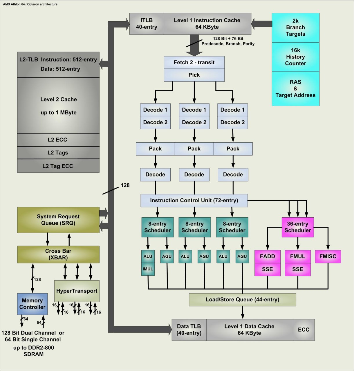 AMD Athlon 64 / Opteron architecture